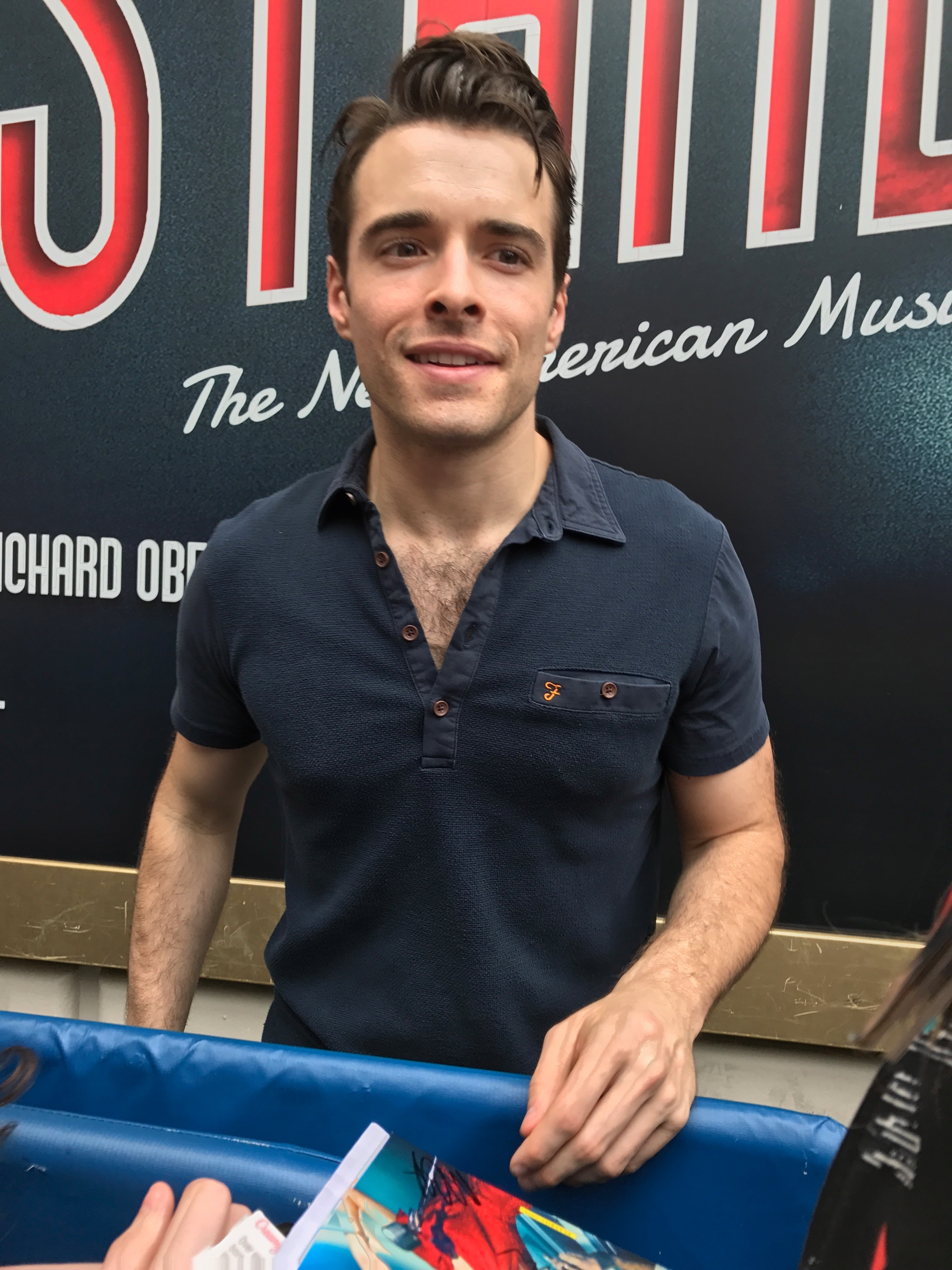 At the Bernard B. Jacobs stage door for Bandstand in 2017.